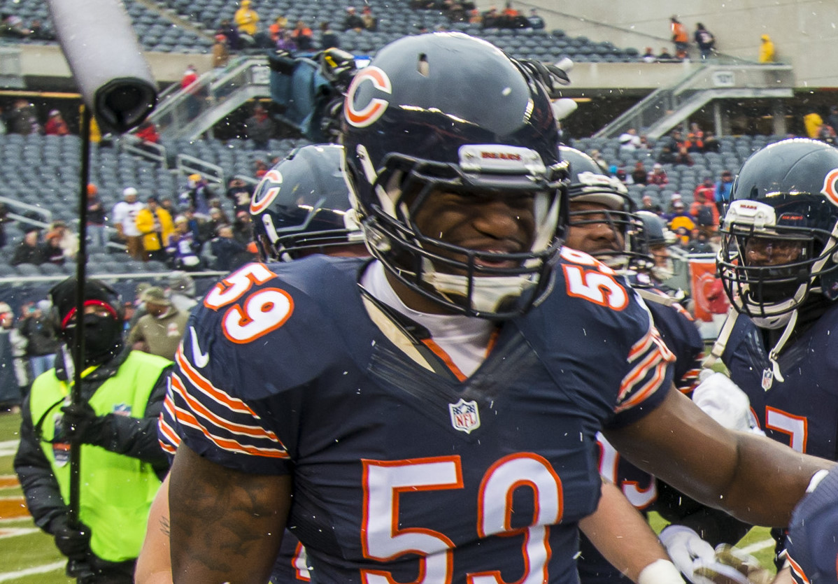 Chicago Bears linebacker, Christian Jones, in a game against the Minnesota Vikings on November 16, 2014.